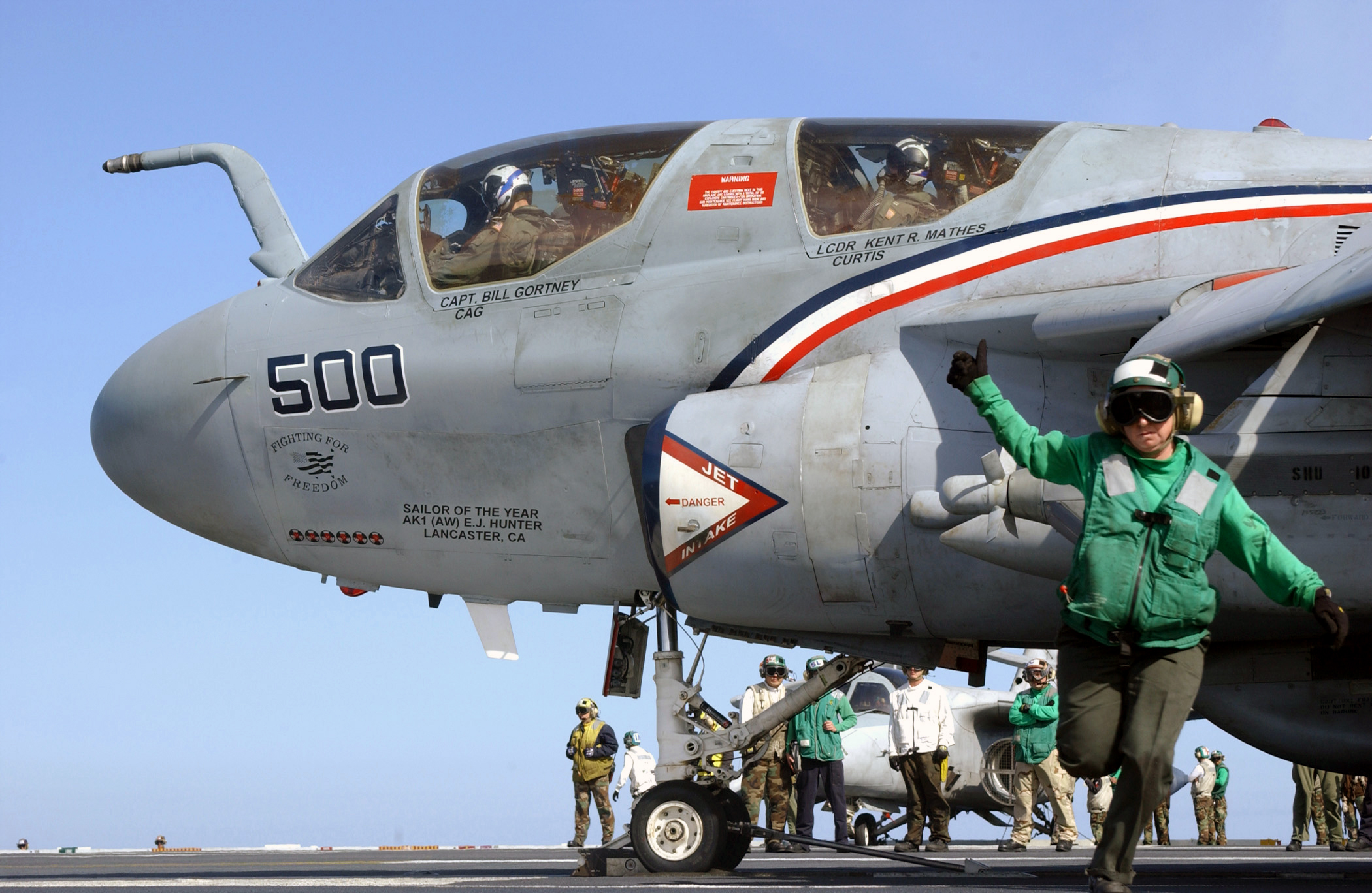 At sea aboard USS John C. Stennis (CVN 74) Feb. 2, 2003 -- Aviation Boatswain's Mate Second Class Erin Weeks of Olympia, Wash., gives the "thumbs up" on her final check of an EA-6B “Prowler” prior to launch from the ship's flight deck. The Stennis and her embarked air wing are conducting sea trials after completing a seven-month Planned Incremental Availability (PIA) period in preparation for an upcoming deployment.